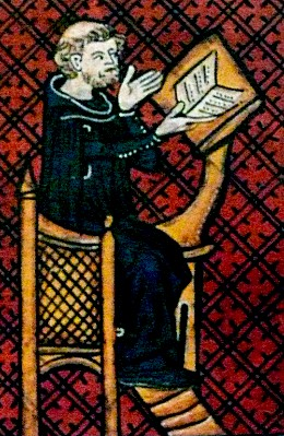 Amalric of Bena